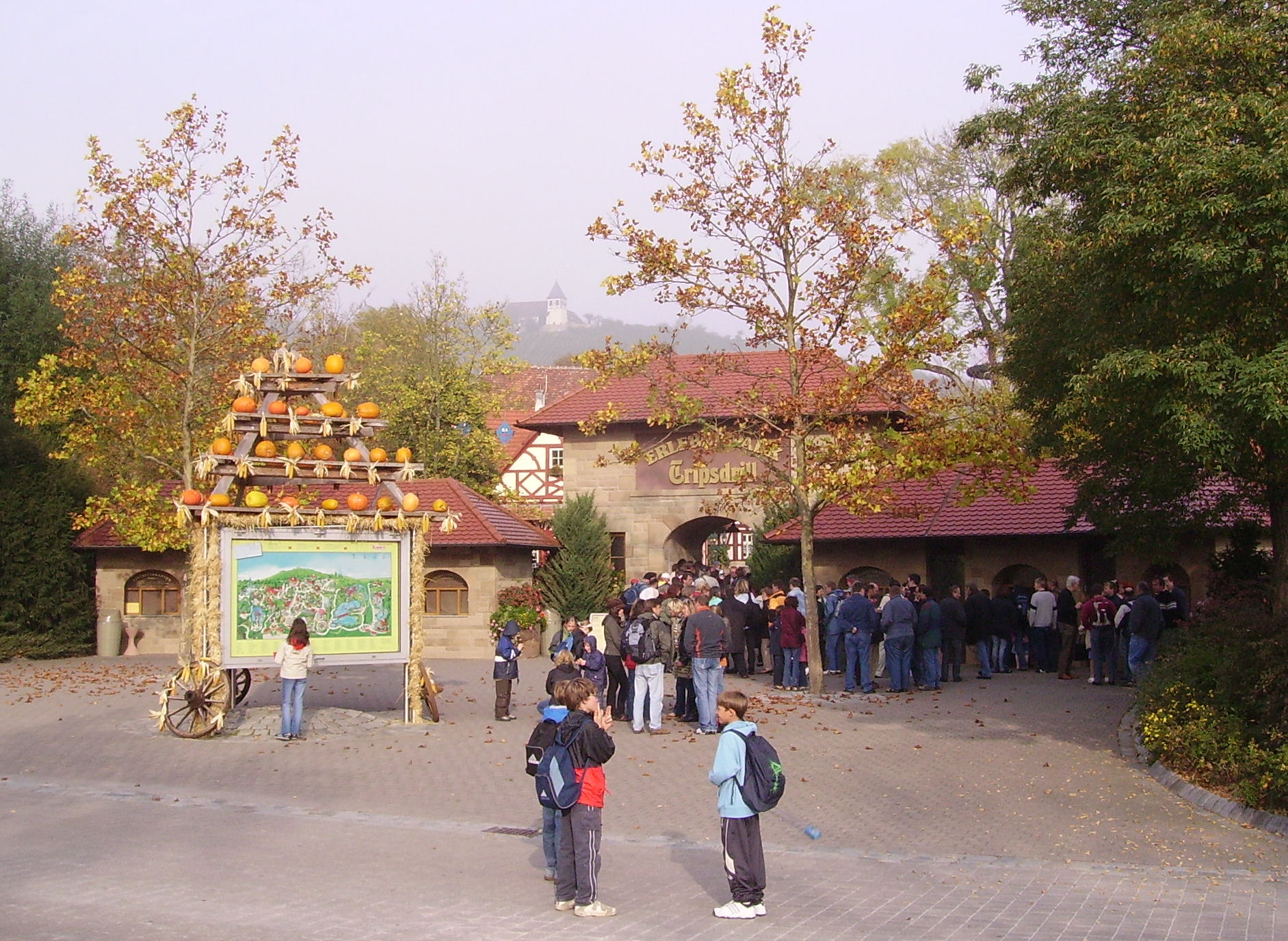 leisure park Tripsdrill near Cleebronn in southern Germany